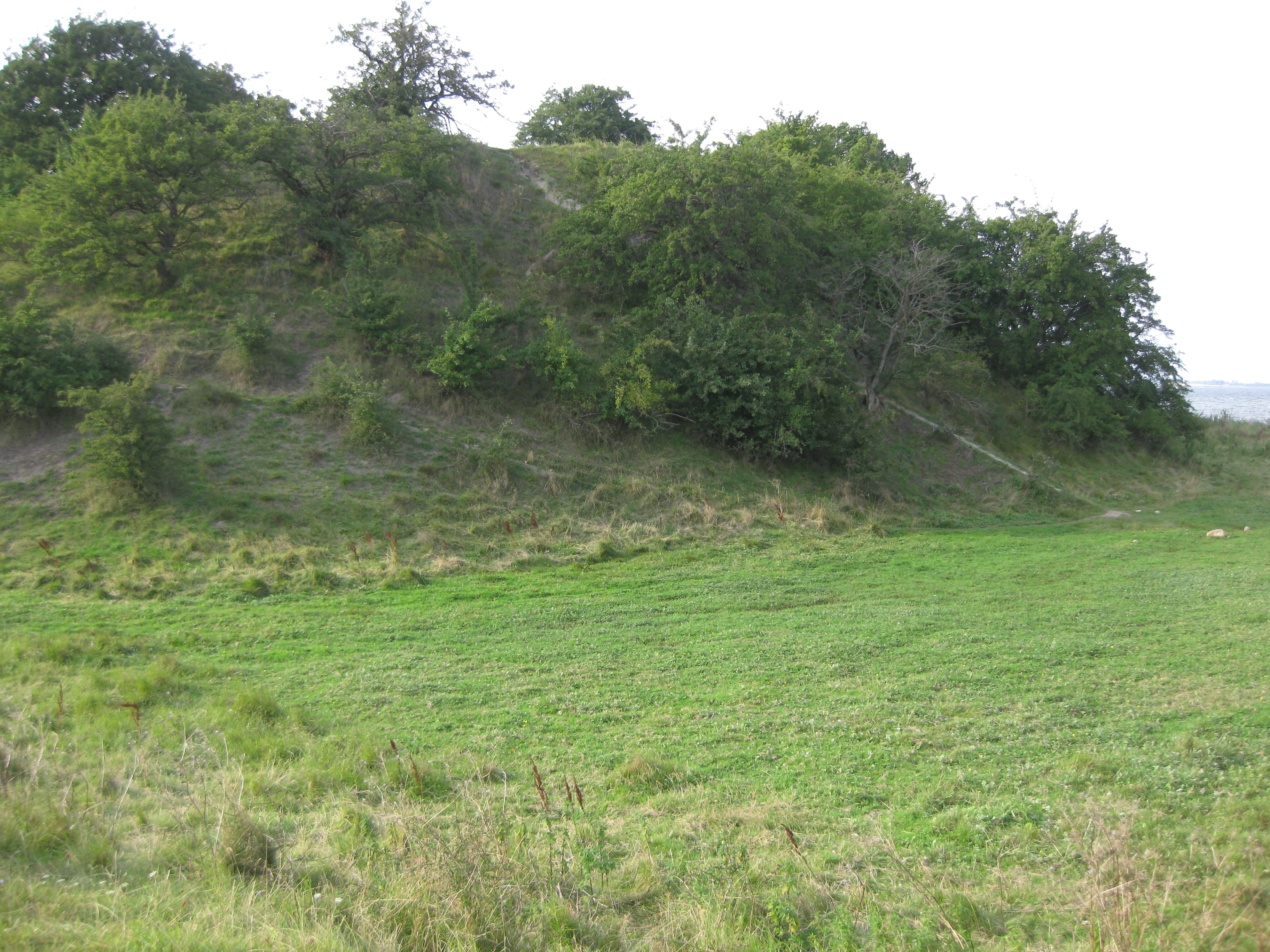 The old ruins of "Ravnsborg" located on the island Lolland in east Denmark.